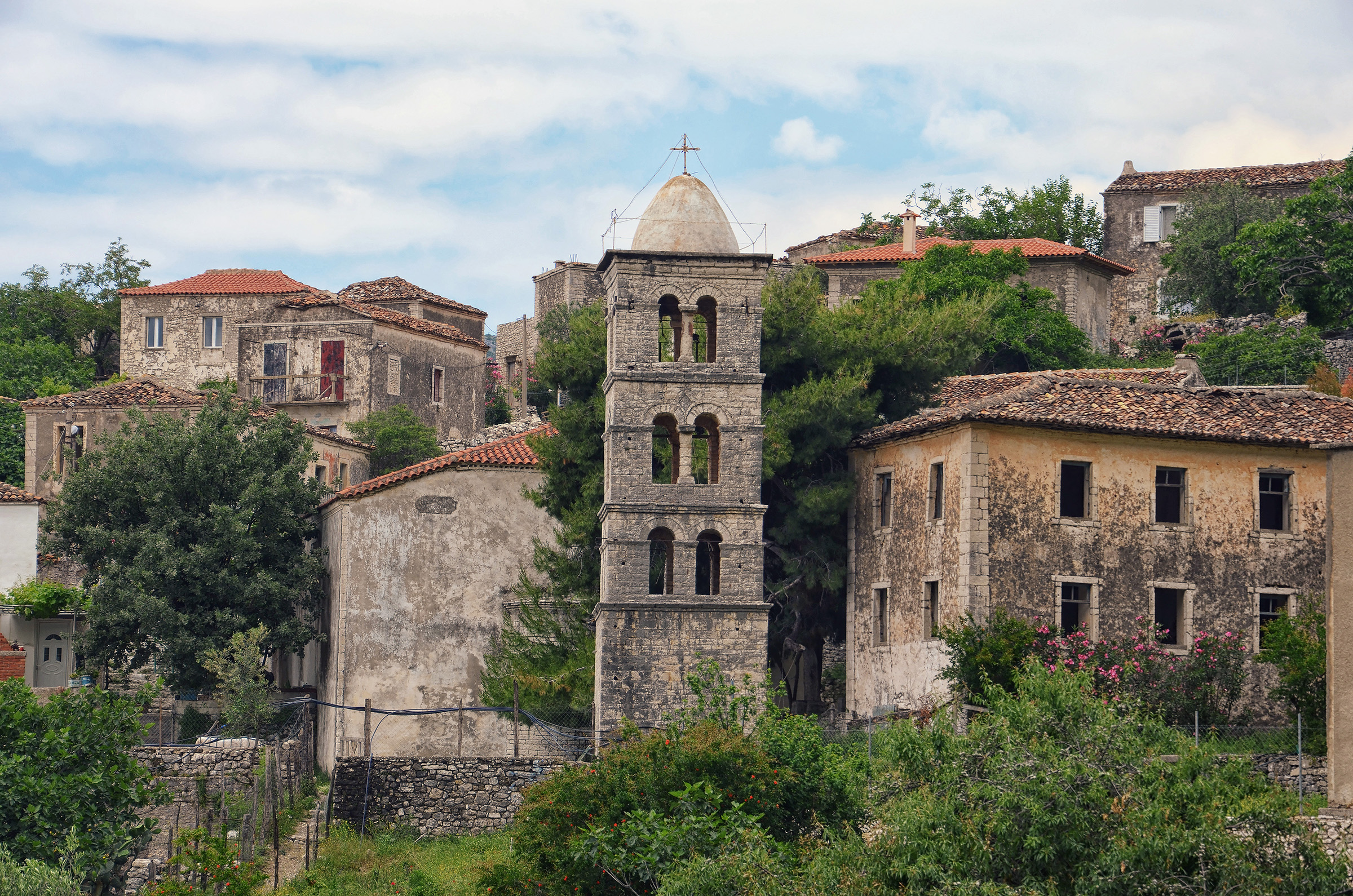 View on Qeparo i Sipërm, Himarë, Albania